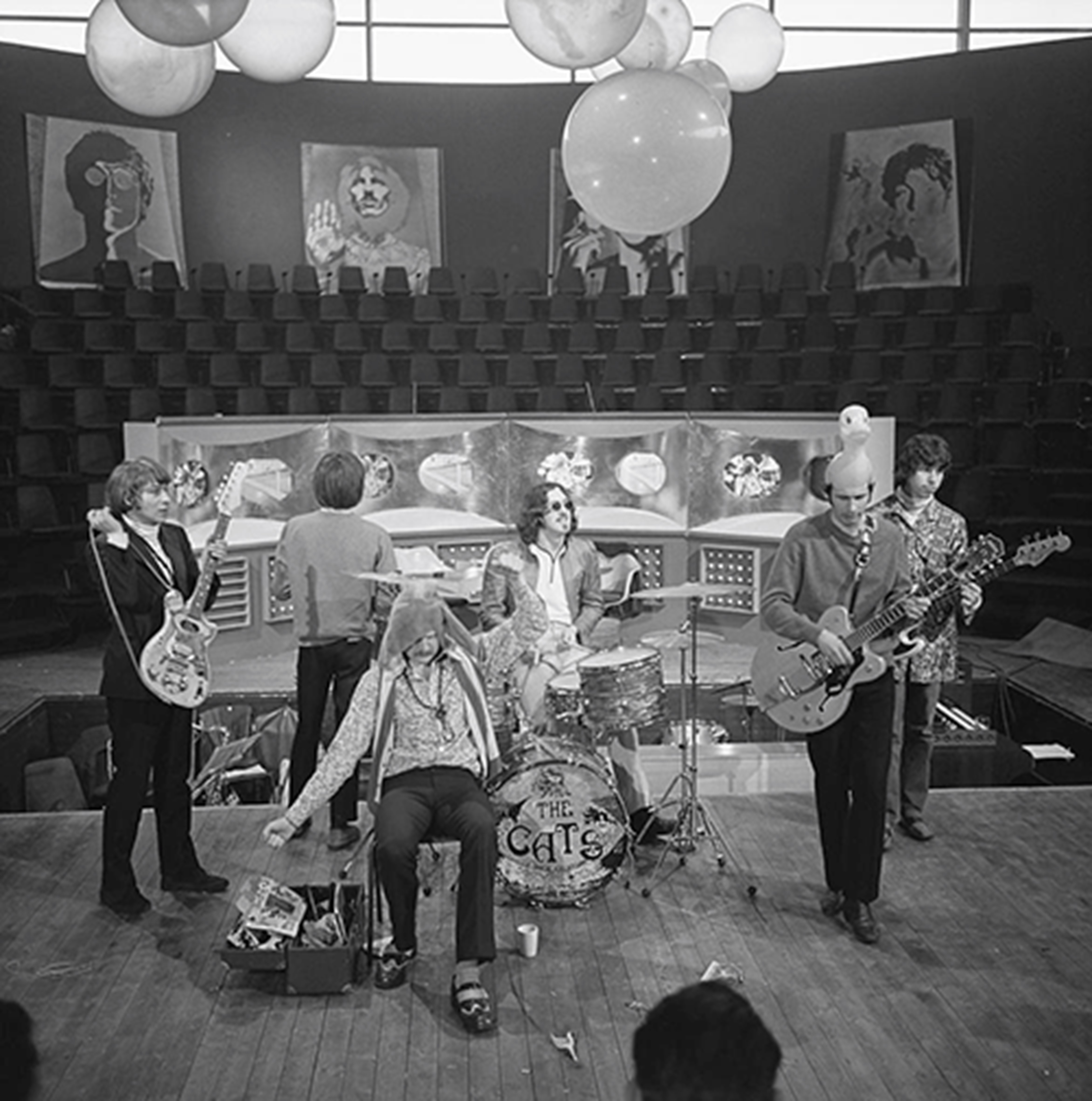 Bonzo Dog Doo-Dah Band in Fenklup (Dutch TV), 7 June 1968. The drumkit is from the Dutch musical group The Cats, performing in Fenklup same day. Left to right: Rodney Slater (guitar), Roger Ruskin Spear (sax), Vivian Stanshall, Larry Smith (drums), Neil Innes (guitar), XX (probably Dennis Cowan or Dave Clague, bass).